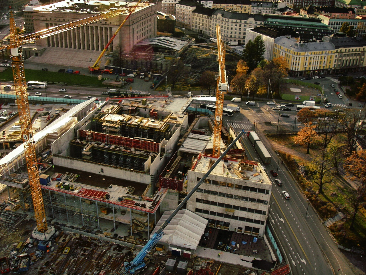 Helsinki Music Centre construction site from air